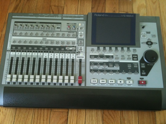 Roland VS-1824 24bit Digital Studio Workstation Posted by